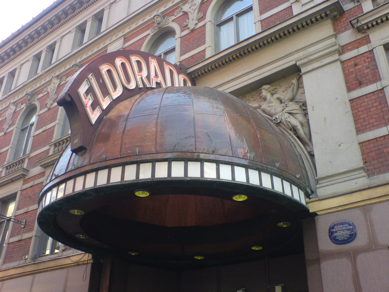 The movie theatre Eldorado kino i Oslo